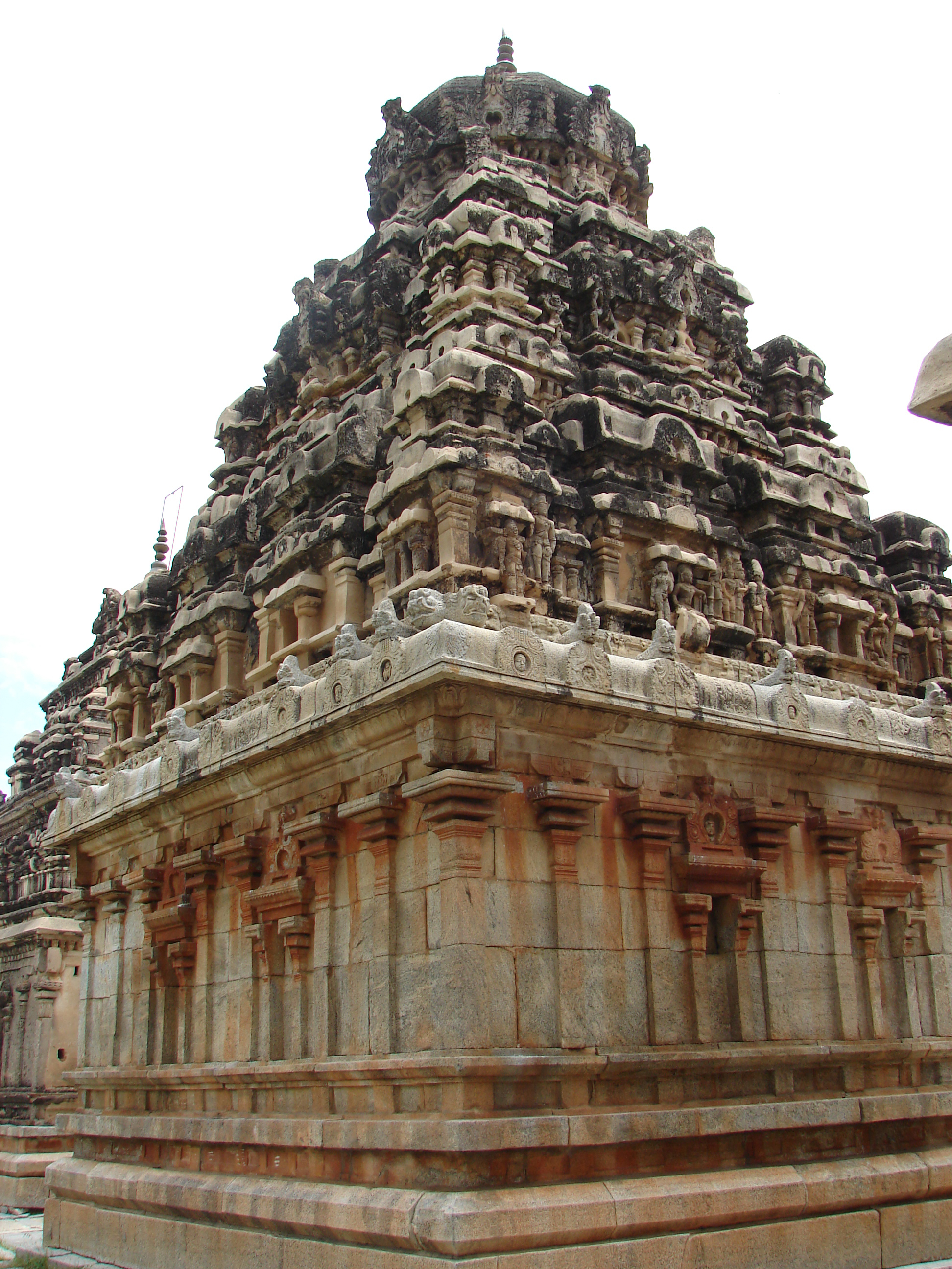 This photograph was taken by me at the Ramalingeshwara group of temples (also spelt Ramalingeshvara) in Avani, Kolar district, Karnataka state, India. There are shrines dedicated to other characters from the Hindu epic Ramayana as well, namely, Lakshmanalingeshwara, Bharatalingeshwara, Shatrugnalingeshwara, Anjanayeshwara and Sugriveshwara. The temples were initially built by the local Nolamba dynasty in the 10th century and later additions were made by the Chola dynasty. The architecture is basically Dravidian.